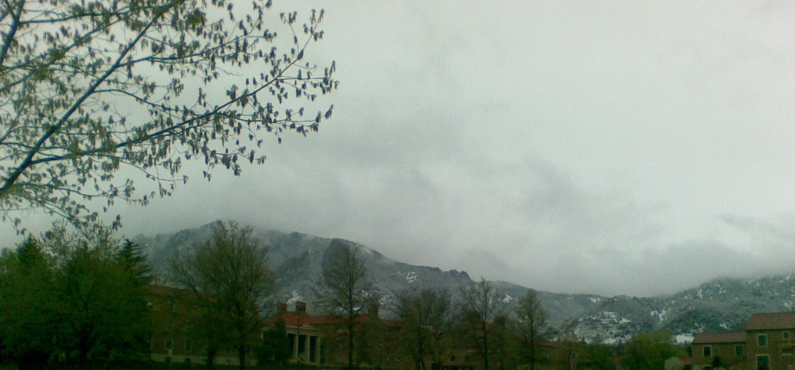 Rocky Mountains visible from Boulder, Colorado, USA